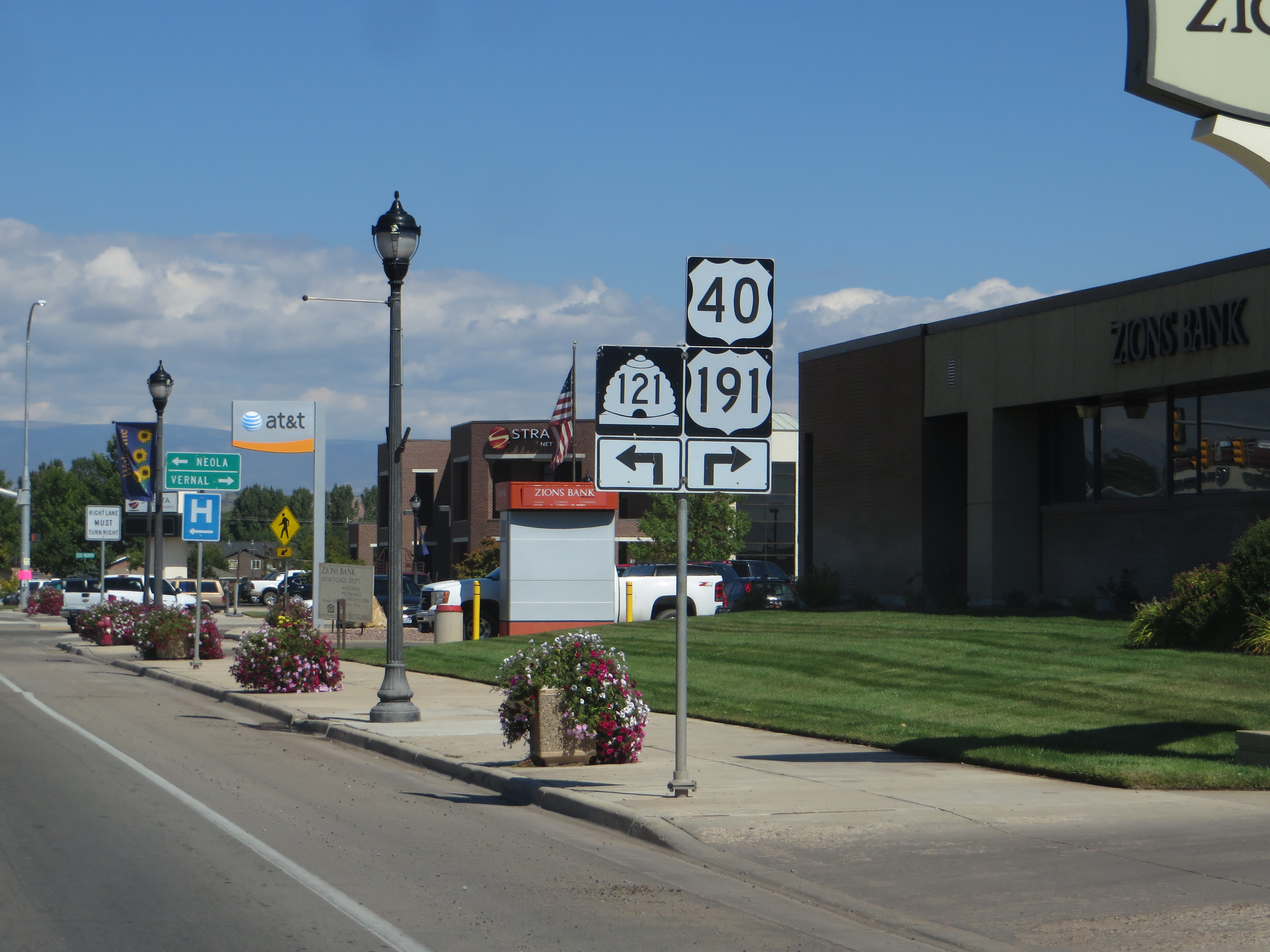 US Routes 40 and 191 approaching Utah State Route 121